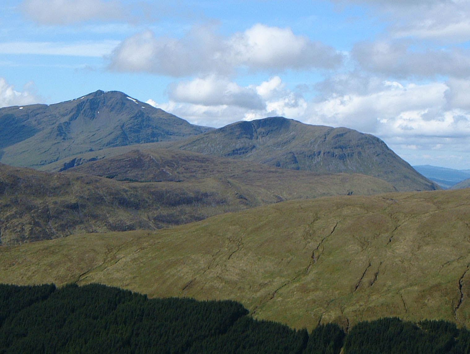 Personal picture taken by Mick Knapton Beinn Chuirn and Ben Lui seen from the slopes of Beinn Odhar, north of Tyndrum